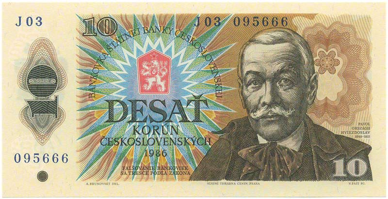 Obverse of the 10 Kčs banknote of the State Bank of Czechoslovakia dated 1986